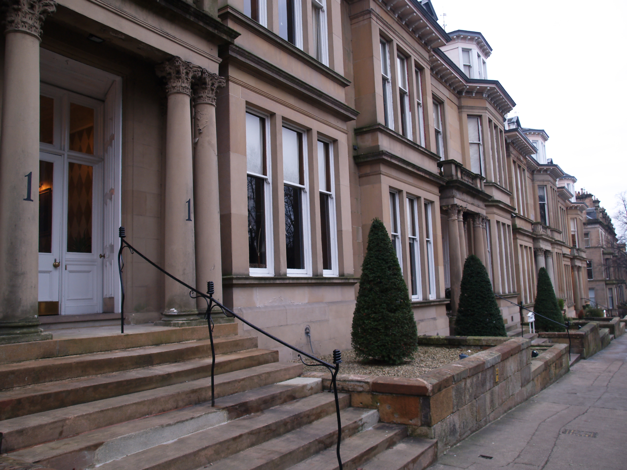 One Devonshire Gardens in Glasgow, Scotland. Taken in 2006.